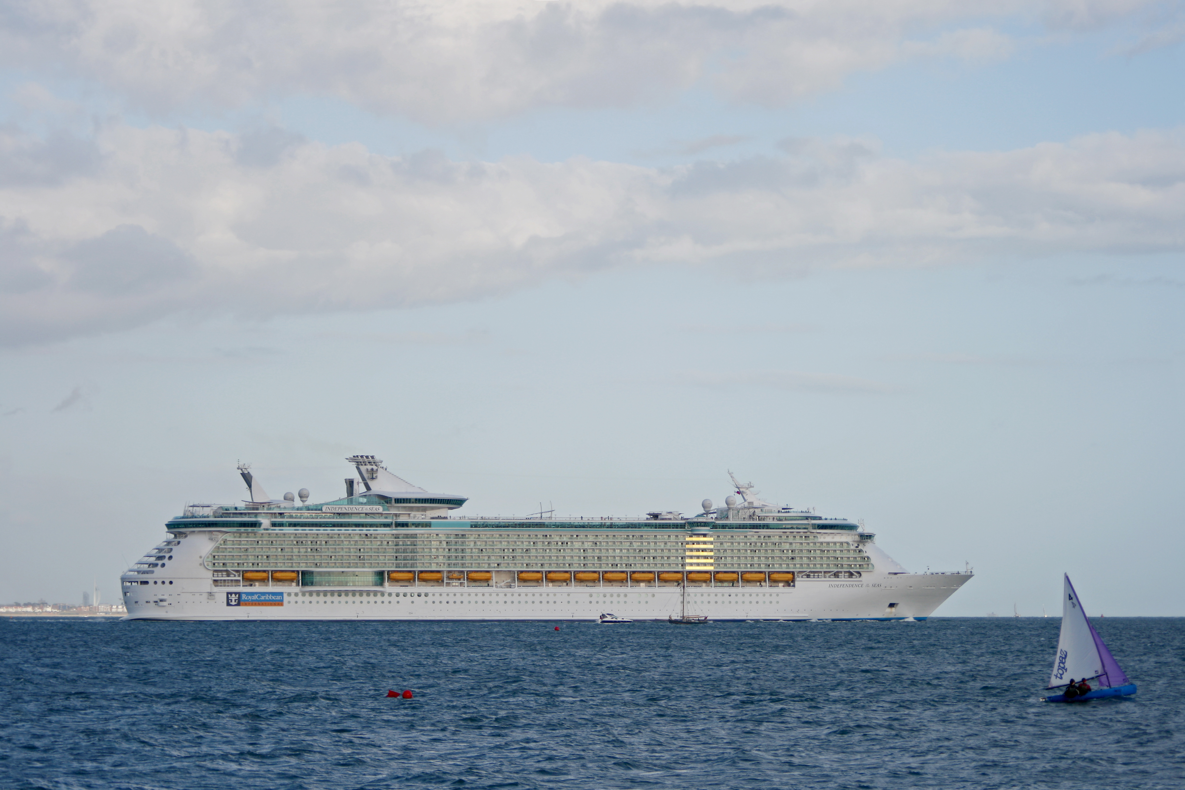 154,407 gross tons Independence of the Seas passing Calshot Spit light buoy in The Solent, outward bound from Southampton. Image uploaded by me George.Hutchinson from a photograph taken by and supplied by Brian Burnell. The photograph should be attributed to Brian Burnell. Wikipedia editors are reminded that the copyright remains with the photographer, and that the terms of the Creative Commons Attribution-ShareAlike 3.0 Unported Licence that allow editors to reuse this image apply to Wikipedia editors also, as they do to other reusers of this image. Breaches of the licence terms are not only unlawful, but are also antisocial, in that breaches discourage photographers from making their images freely available to everyone without payment. Non-Wikipedia users are requested to advise Brian Burnell of its use other than on Wikipedia.